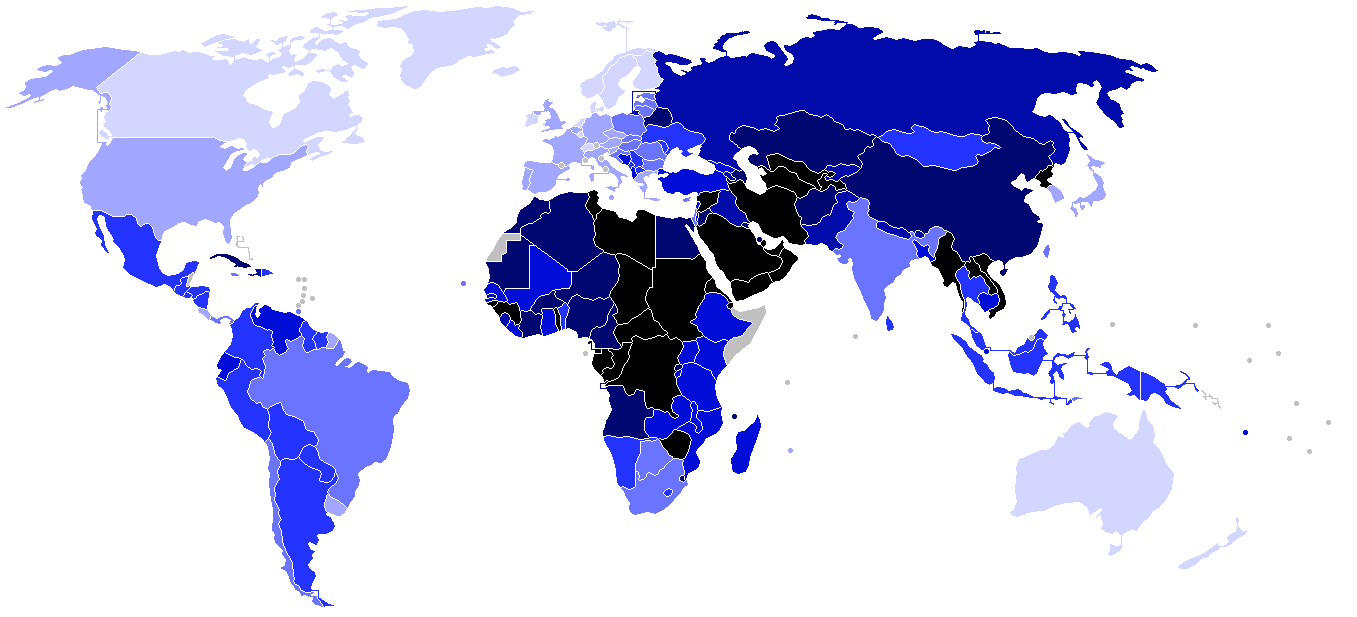 A map of the world, highlighted on a scale from light blue to black, based on the score each country received according to The Economist's Democracy Index survey for 2008, from a scale of 10 to 0, with 10 being the most democratic, and 0 being the least democratic. (Hong Kong, not visible on this map, was also included in the survey, being given a score of 5.85) Key: Full Democracy 10-9 9-7.95 Flawed Democracy 7.95-7 7-6 Hybrid Regime 6-4.5 4.5-3.95 Authoritarian Regime 3.95-2 2-0